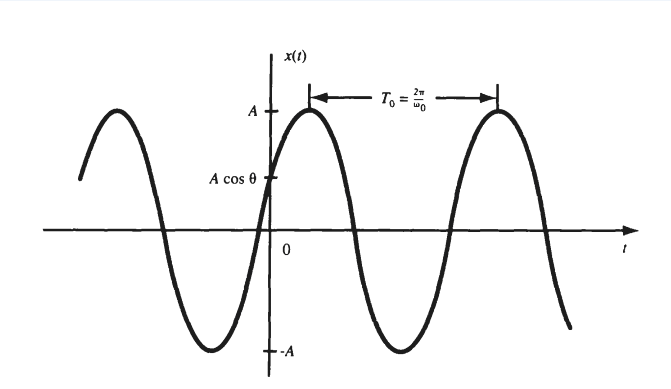 Figura 7. Sinjali sinusoidal i vazhdueshëm në kohë